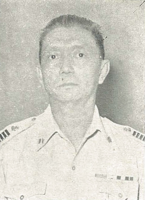 Colonel John Lie (Jahja Daniel Dharma), member of the People's Representative Council